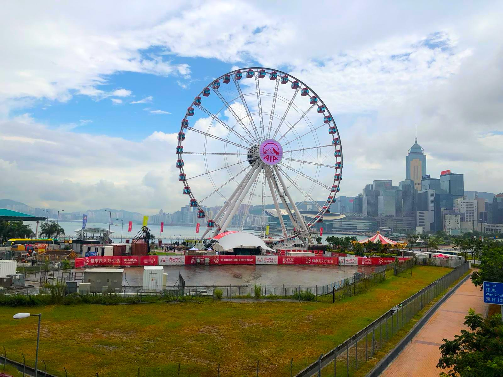 Hong Kong Observation Wheel from the pedestrian bridge and parts of the Central Harbourfront